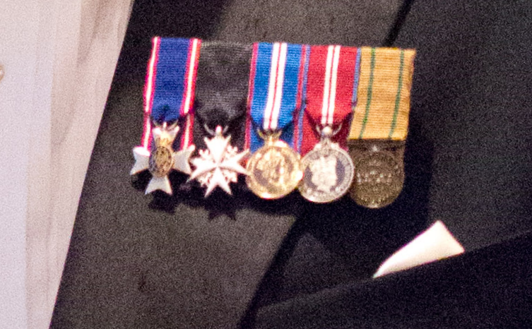 Minature medals as worn by Dr. Christopher McCreery at the Westin Hotel in Edmonton, Alberta. The occasion was a Gala Dinner to celebrate the Diamond Jubilee of Her Majesty, Queen Elizabeth II, Queen of Canada, hosted by St. John Ambulance in Alberta.